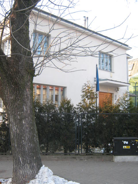 The building of the Estonian embassy in Warsaw, Karwińska 1 Street.